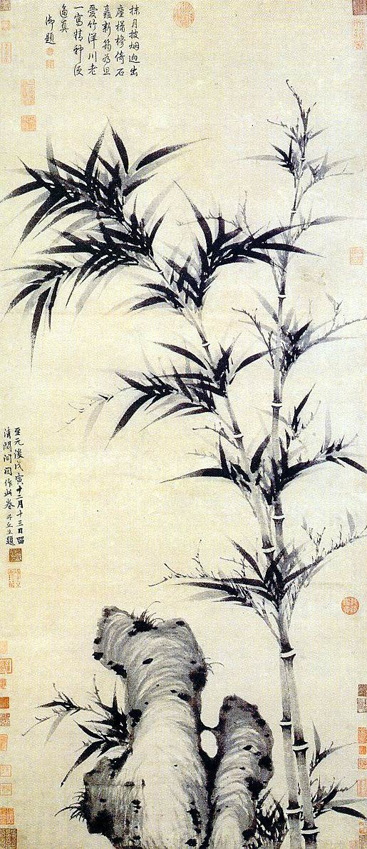 Ke Jiusi, Bamboo at Qingbige Pavillion, Dated 1338. The Palace Museum, Beijing.